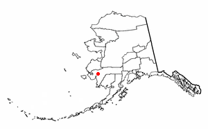 Adapted from Wikipedia's AK borough maps by Seth Ilys.